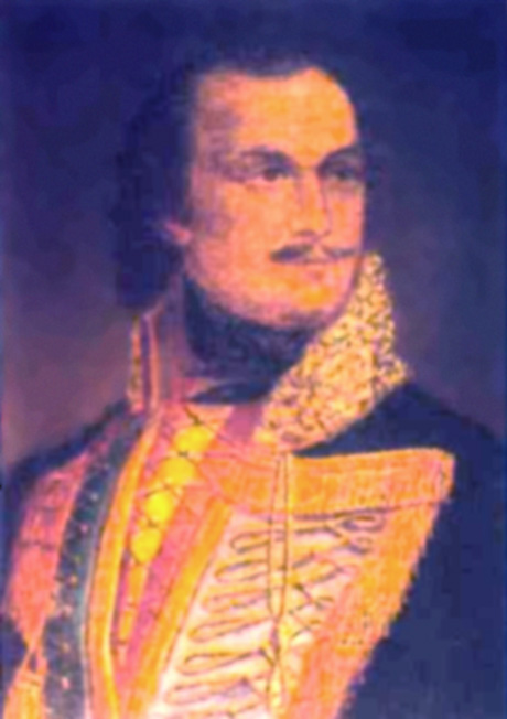 Portrait of Kazimierz Pułaski (1746 – 1779) at the Polish American Museum in Port Washington, New York